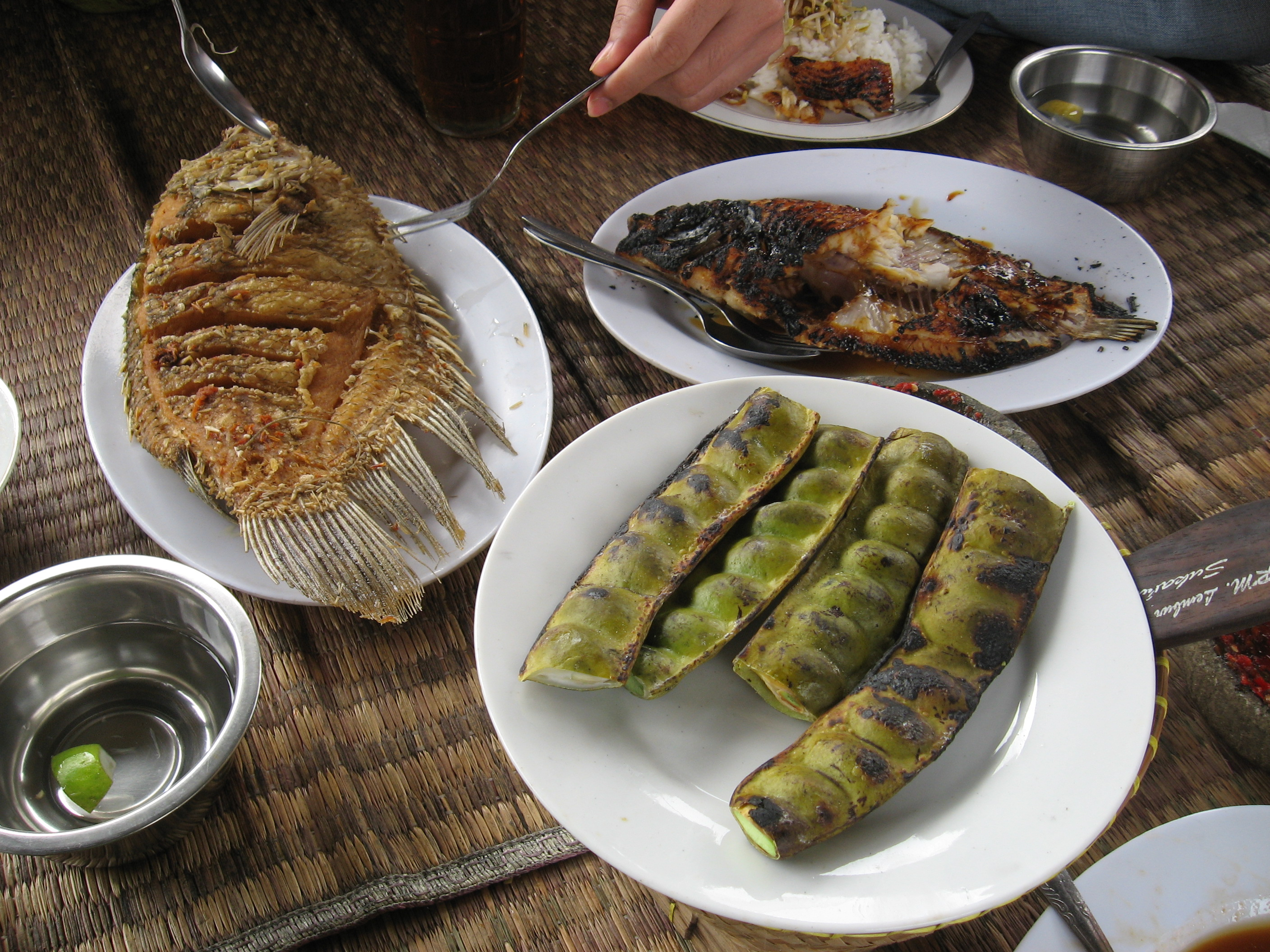 Grilled Parkia speciosa in Sundanese cuisine.